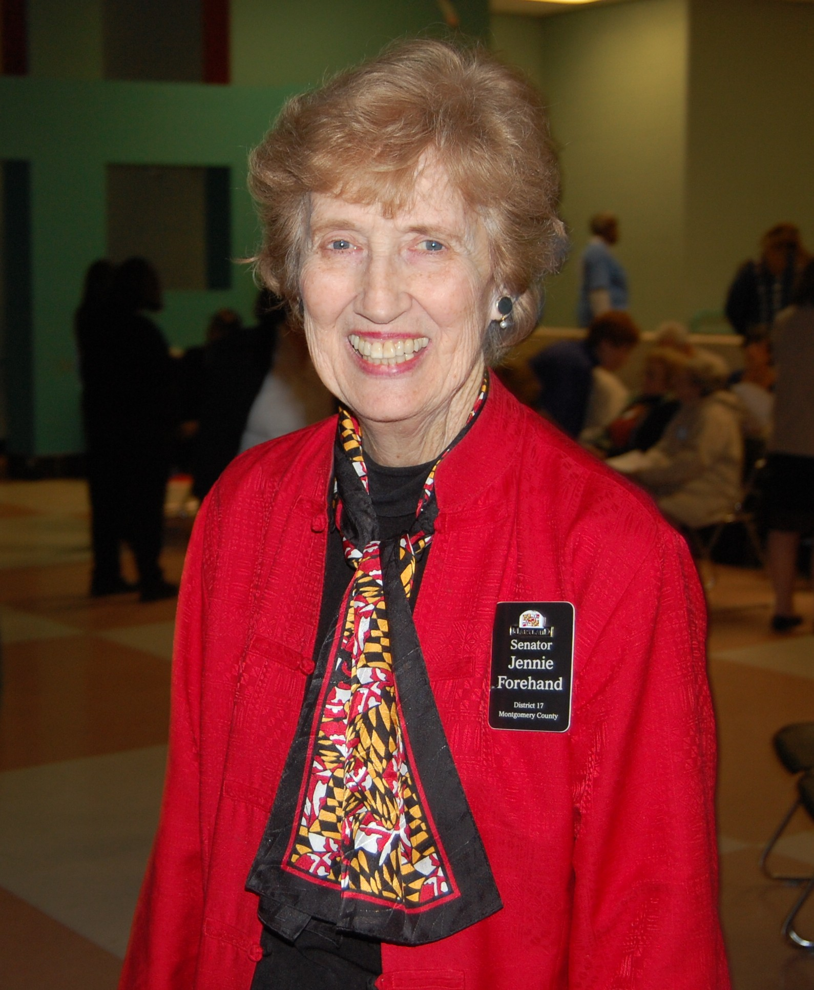 Maryland State Senator Jennie Forehand.